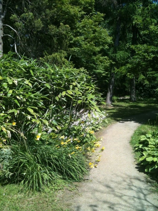 Arboretum at the University of Mainz